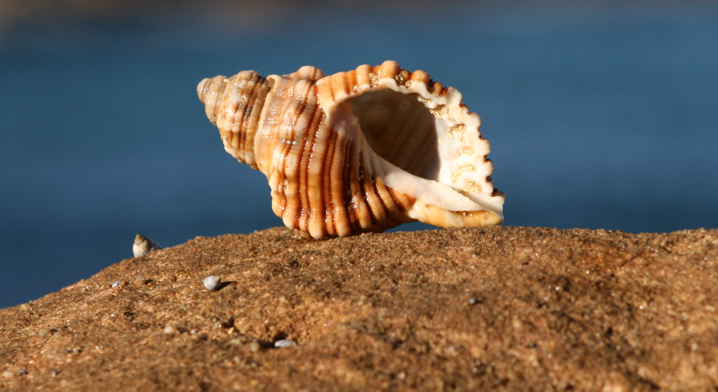 Cabestana spengleri (Spengler's trumpet) shell on sandstone foreshore near MacMasters Beach, NSW, Australia.